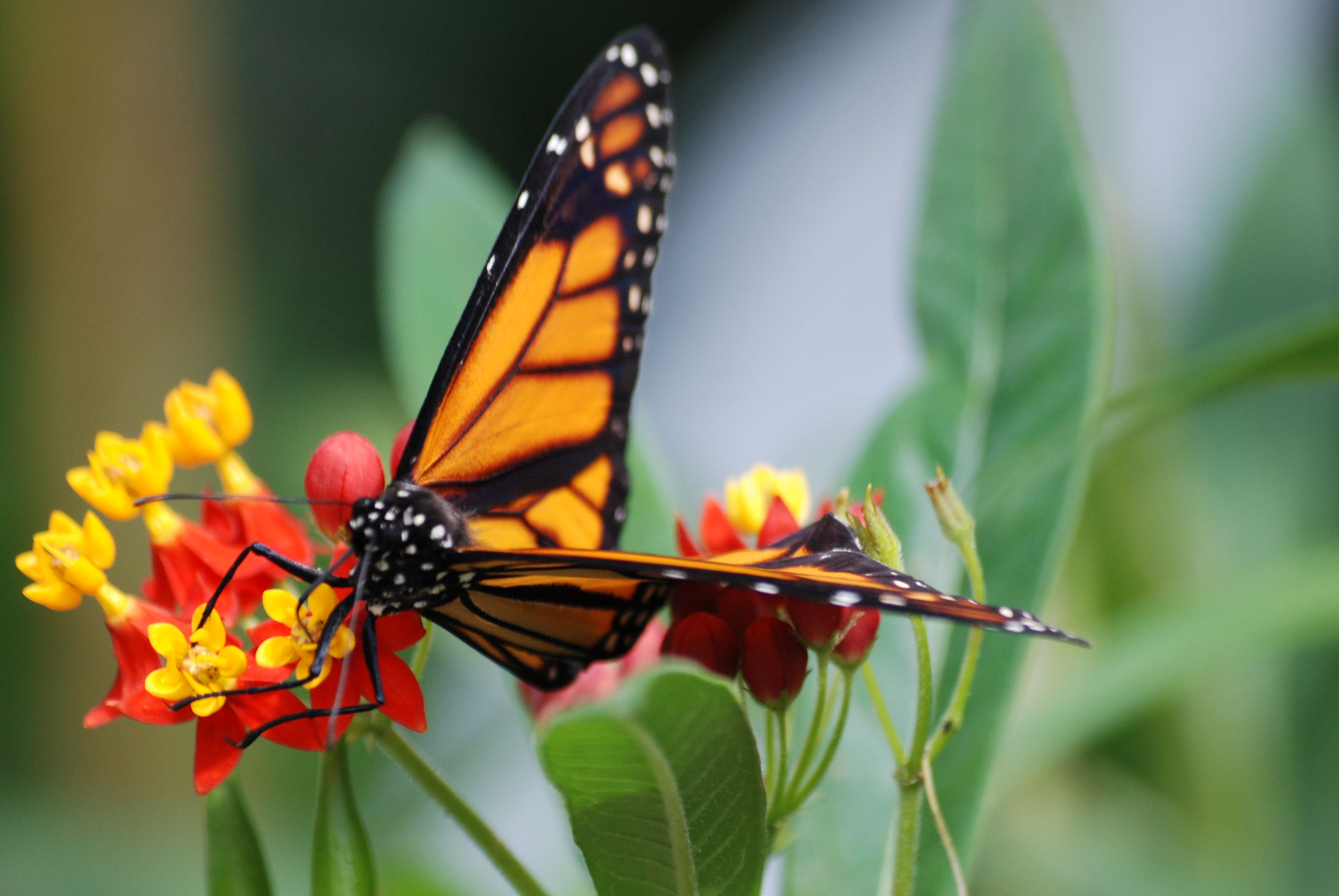 Danaus plexippus in Bornholms Sommerfugelpark & Tropeland